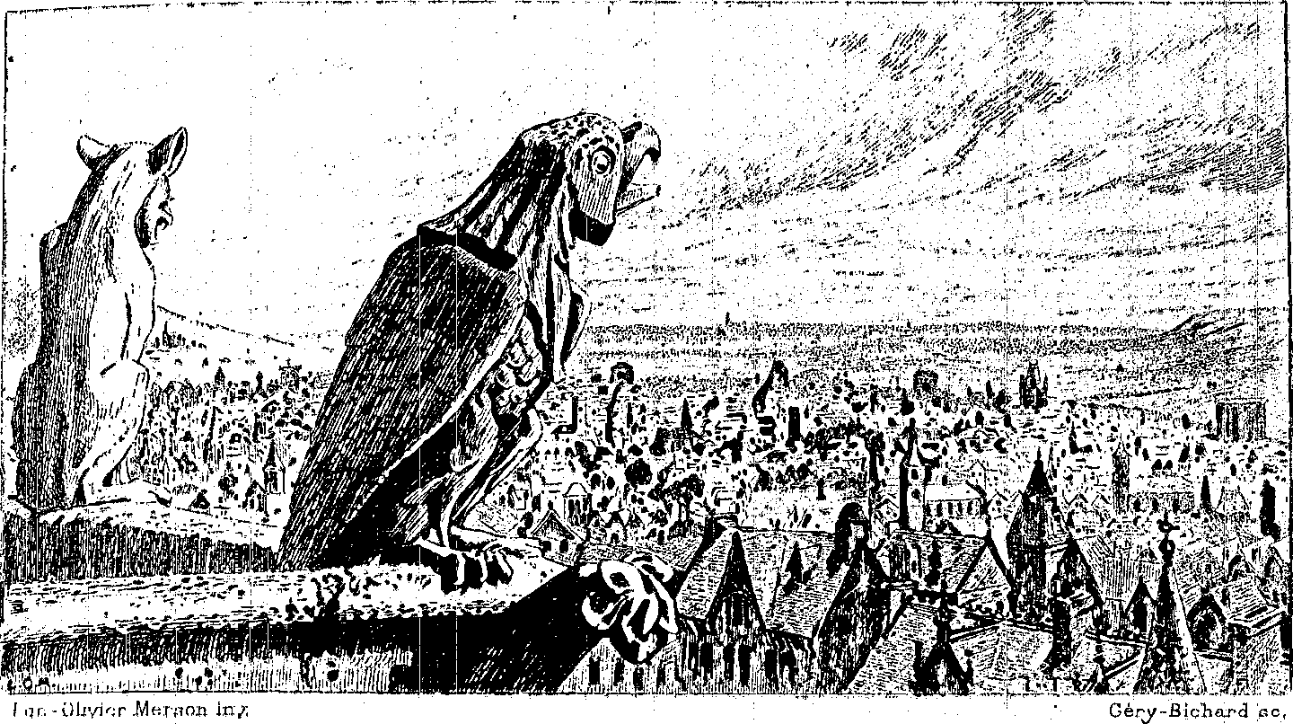 The illustration at the beginning of chapter 2, book 3, from page 177 of Notre-Dame de Paris (The Hunchback of Notre Dame) by Victor Hugo, from the 1889 edition.